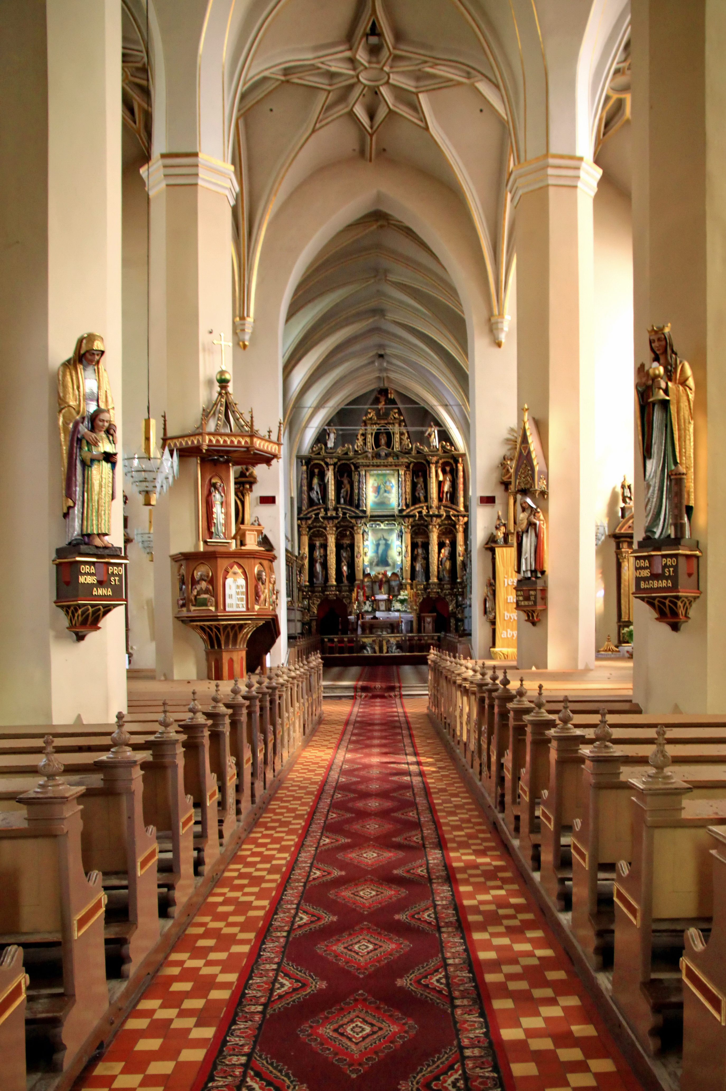 Racibórz, parish church of the Assumption of the Blessed Virgin Mary, build in 14th century, 16th century, 1891, 1948-1849. Interior.